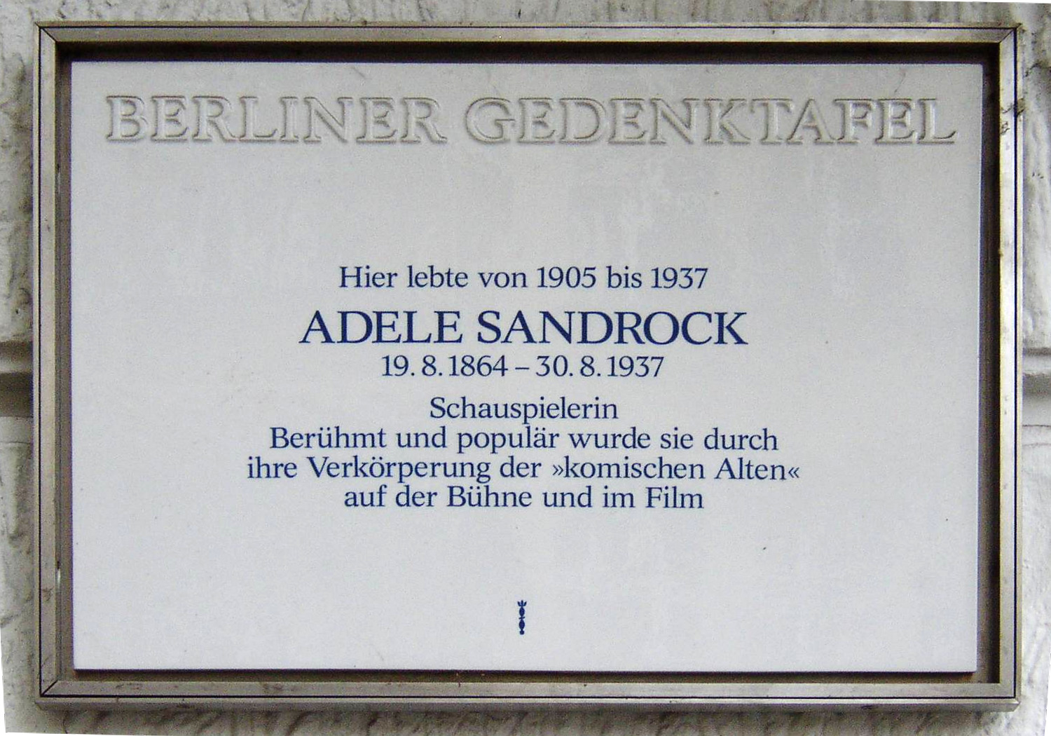 Berlin memorial plaque for Adele Sandrock in Berlin-Charlottenburg, Germany